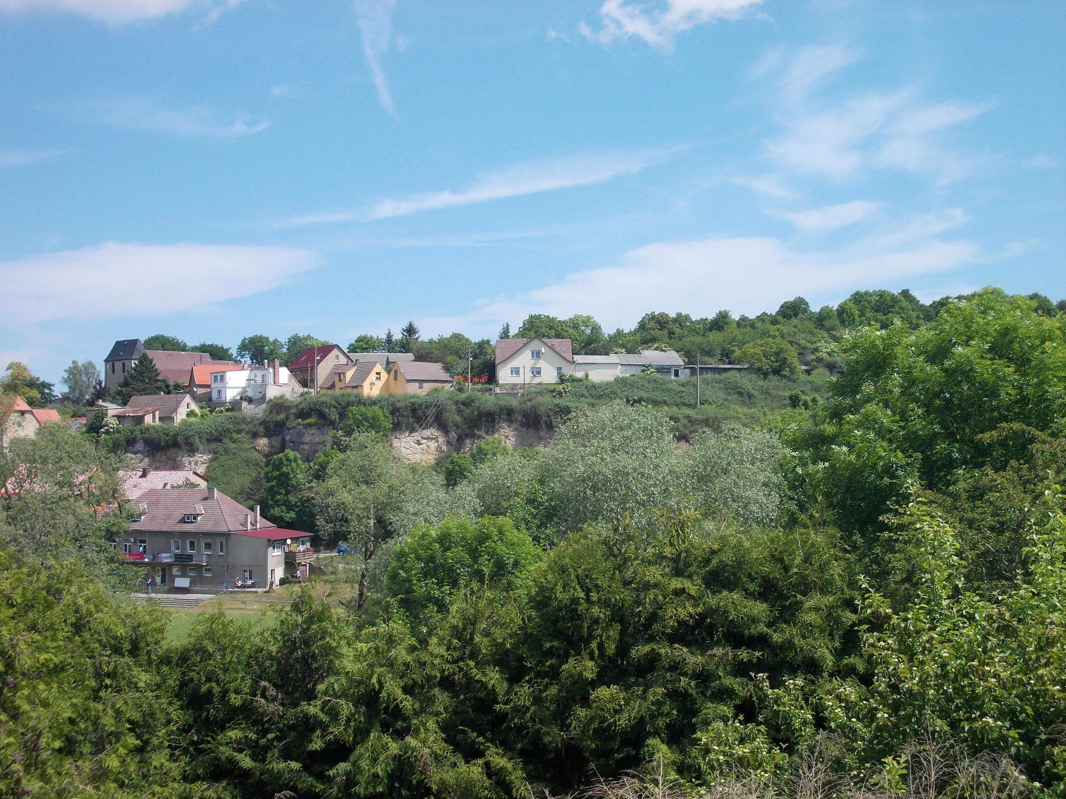 View of a part of Schraplau (district: Saalekreis, Saxony-Anhalt)